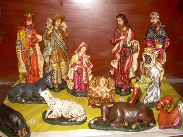 Un Presepe Casareccio a Ejido, Venezuela